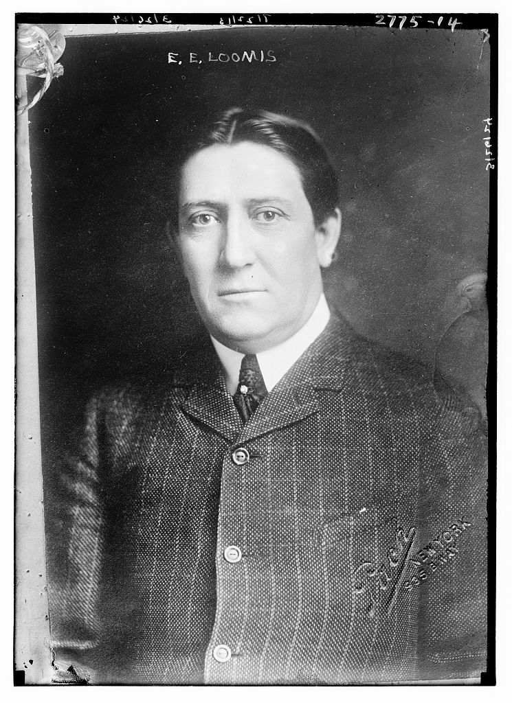 Edward Eugene Loomis (1864-1937), President of the Lehigh Valley Railroad from 1917 to 1937. 1 negative: glass; 5 x 7 in. or smaller. Title from unverified data provided by the Bain News Service on the negatives or caption cards.